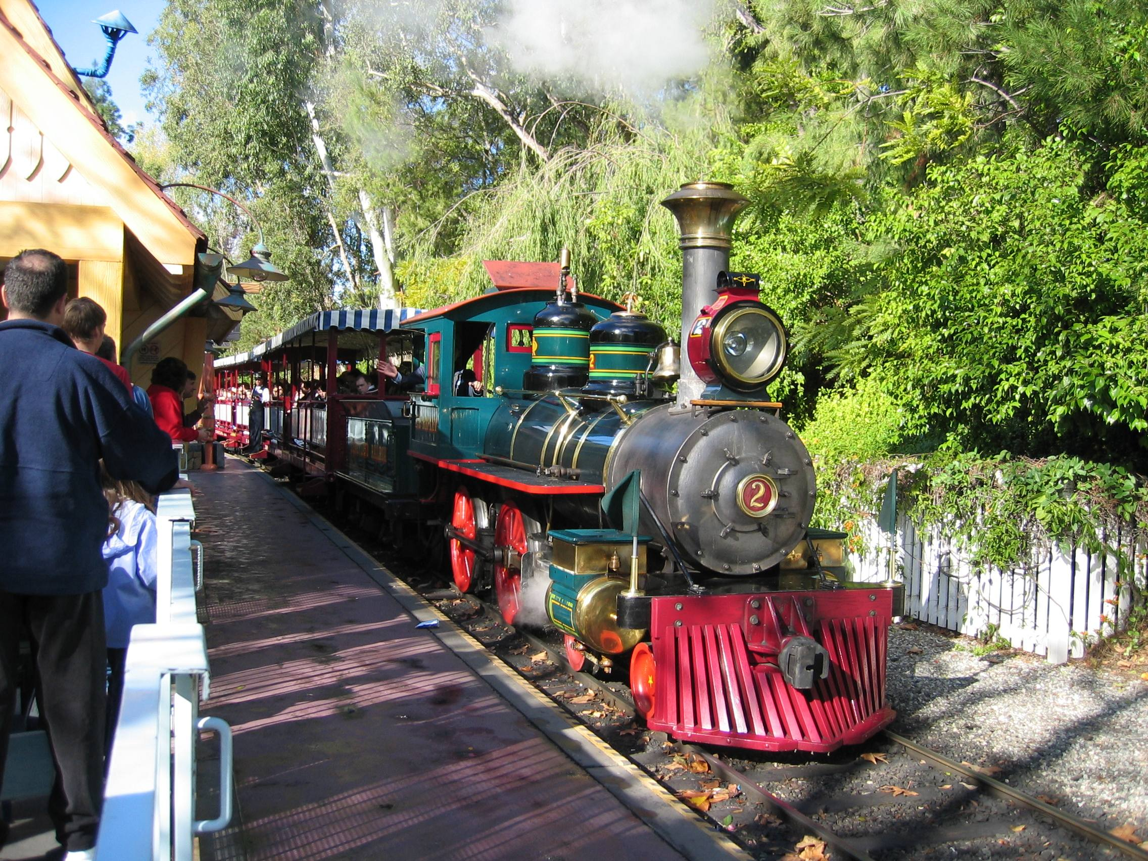 Photo by Judy Bogart circa 2004. Gives permission for GFDL per User:Elf. ATTENTION: do not add this image to the Disneyland Railroad article. See the article's featured article review for details here: [1]